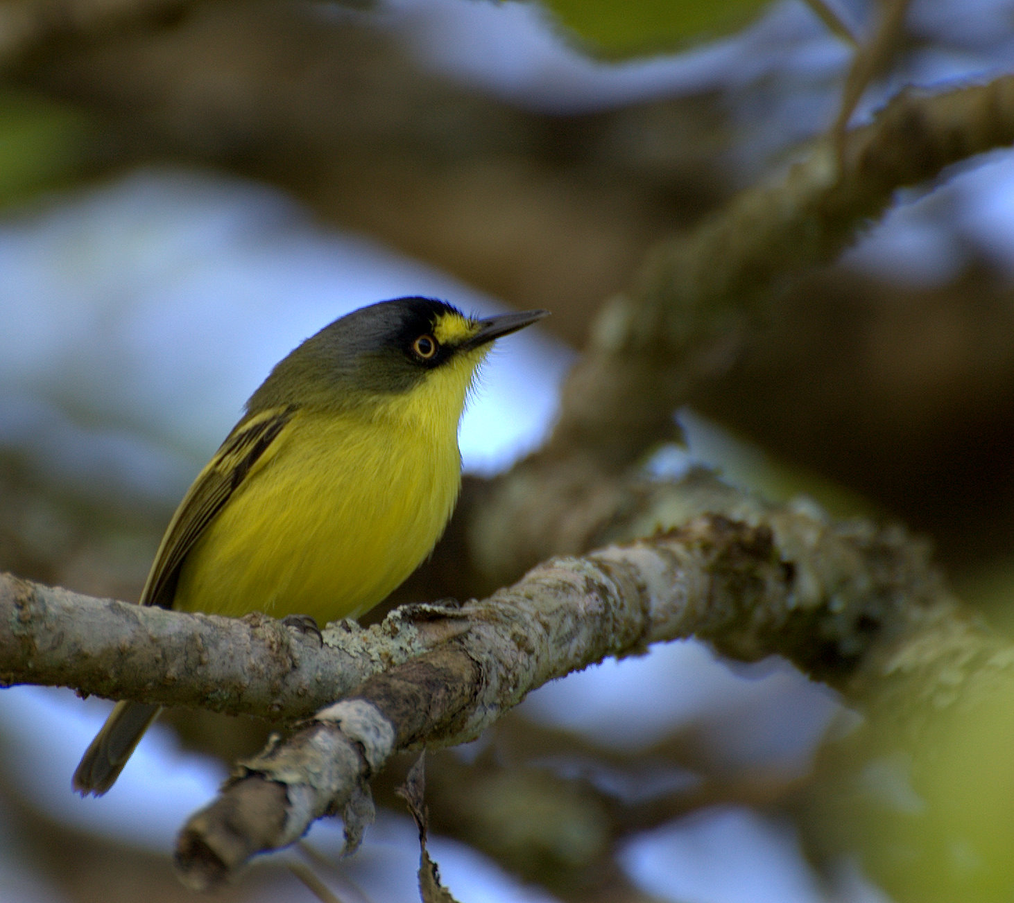 Todirostrum poliocephalum